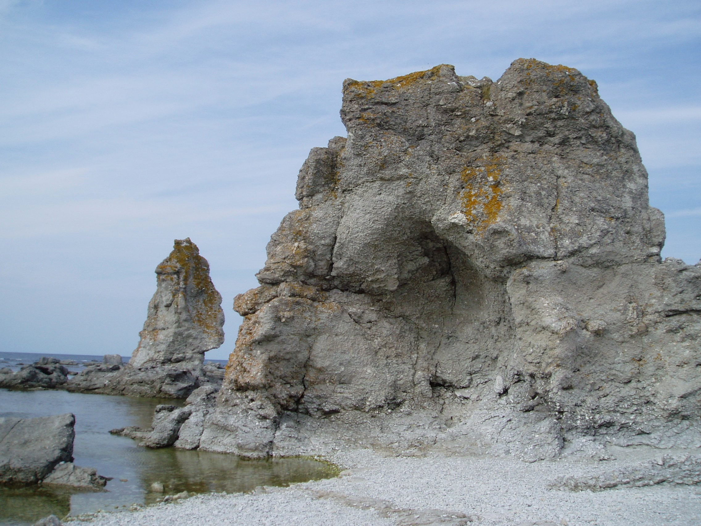 Seastack (rauk) on the island of Fårö (Digerhuvud)